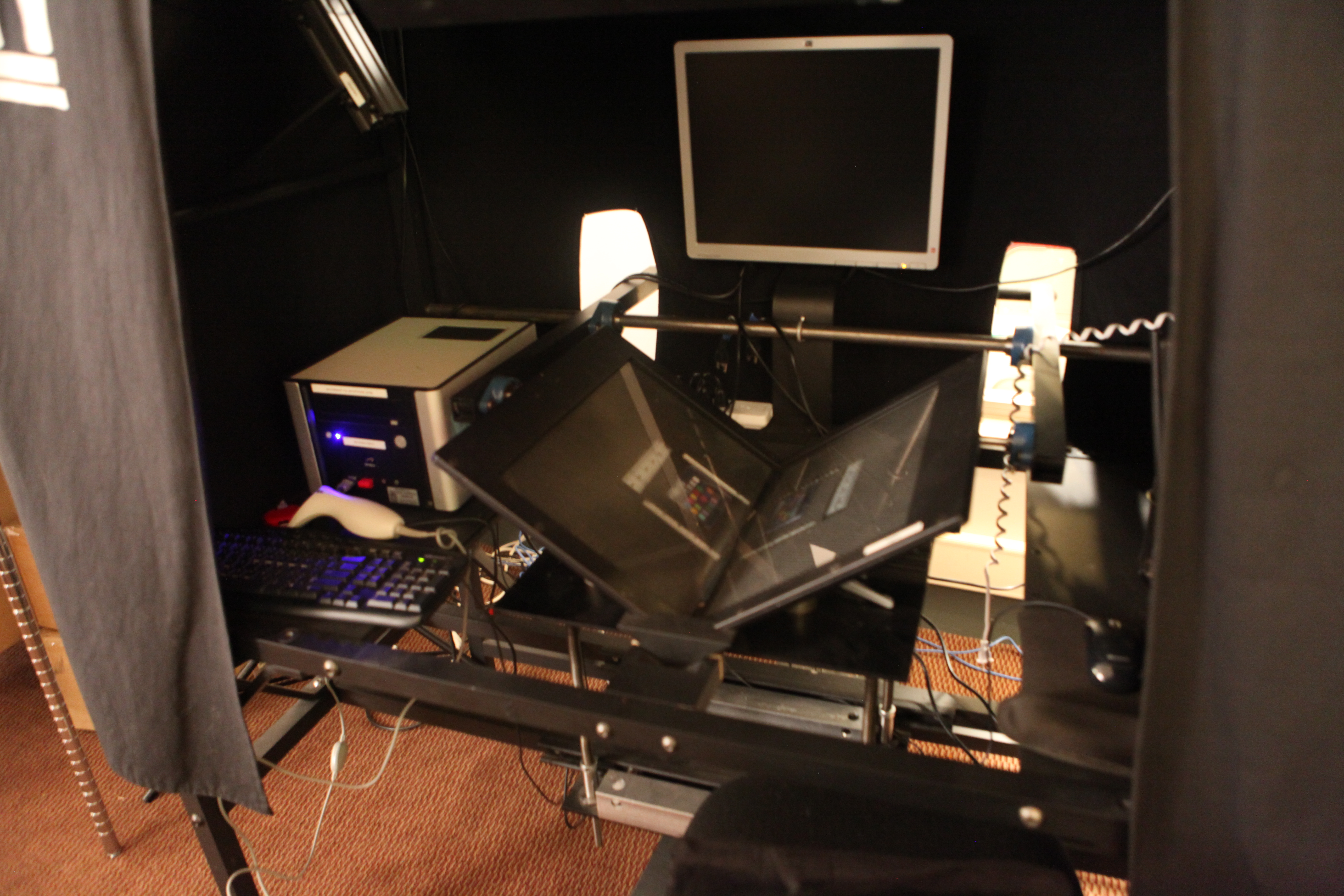 Transferring the Scribe Machine from the Princeton location to the new Poughkeepsie location.